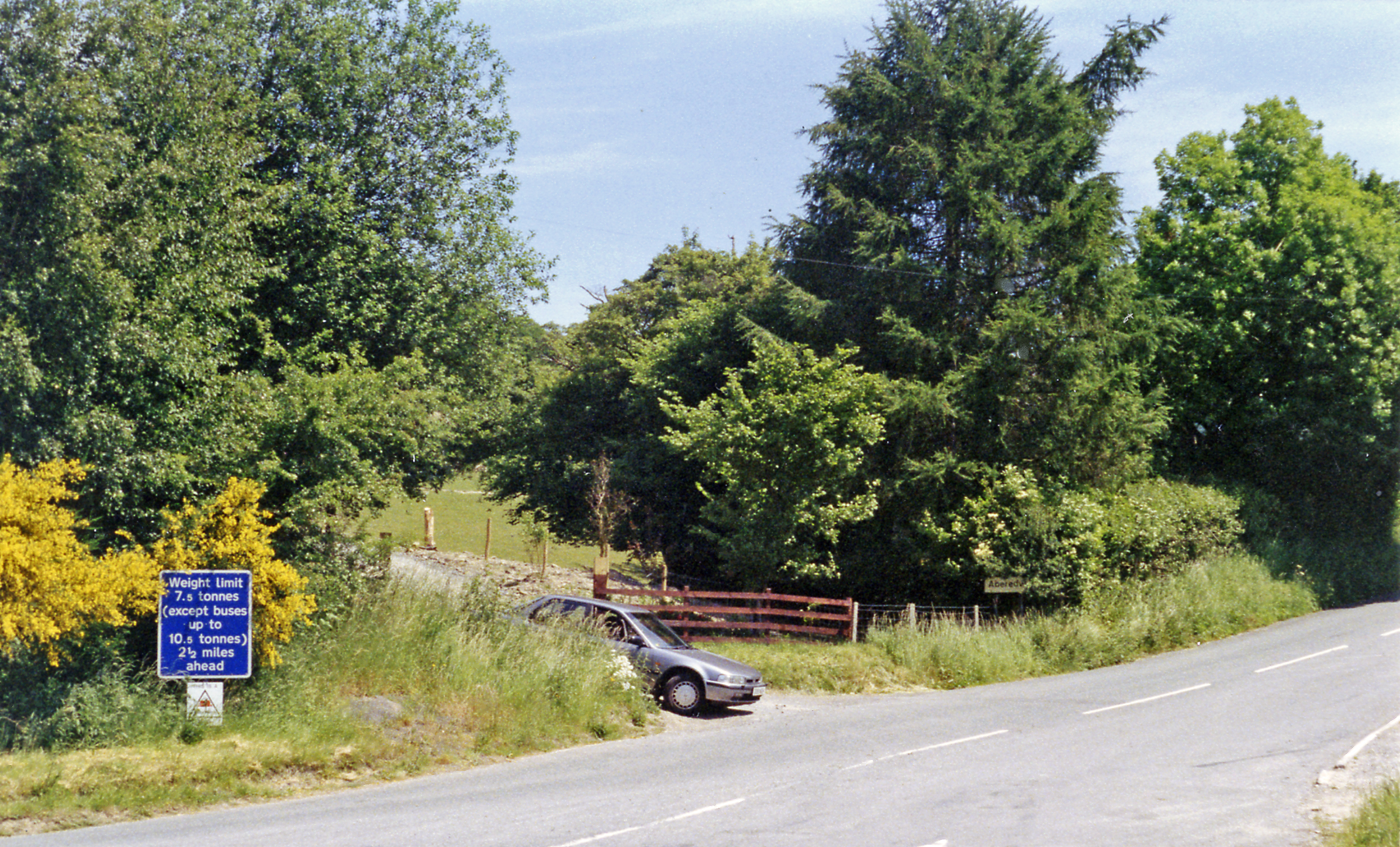 Site of Aberedw station View SE, towards Three Cocks Junction and Brecon: ex-Cambrian Mid-Wales (Moat Lane - Brecon) line, closed 31/12/62. The railway had been up to the left of this scene on th road (A479) down the Wye Valley from Builth.